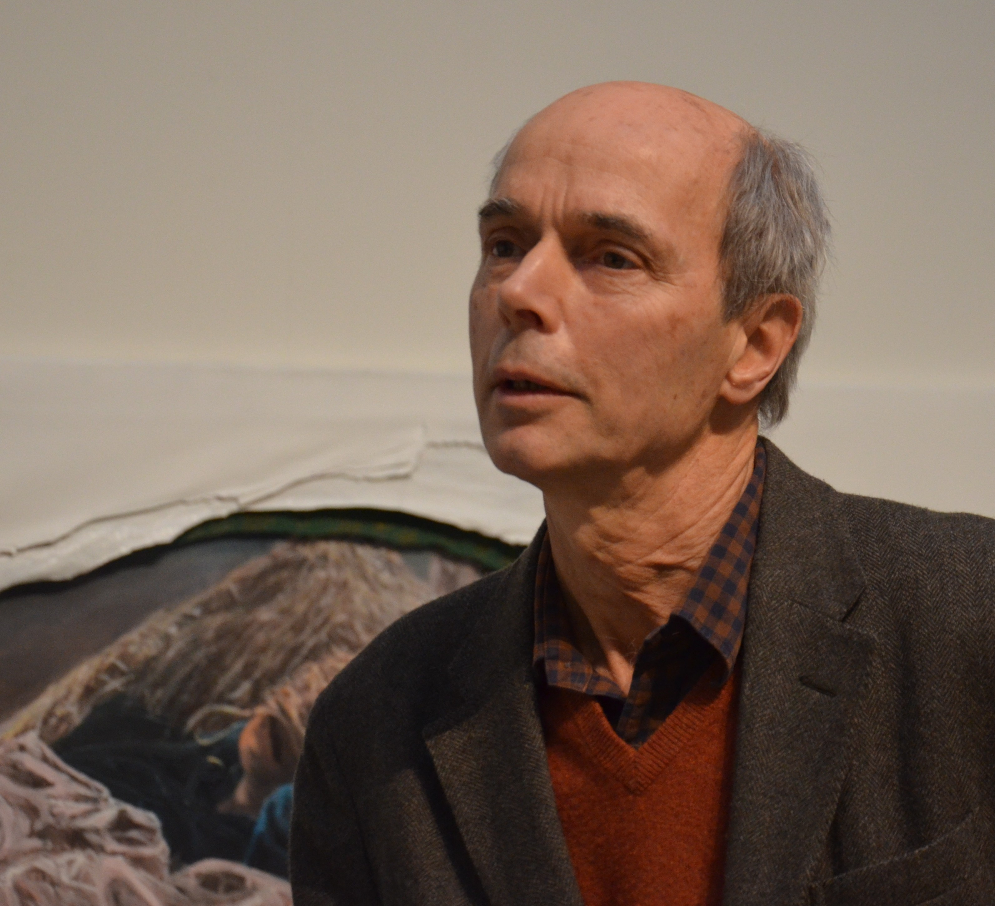 Peter Cornell, Swedish Art Critic at an inauguration speech at the Royal Swedish Academy of Fine Arts, November 2014